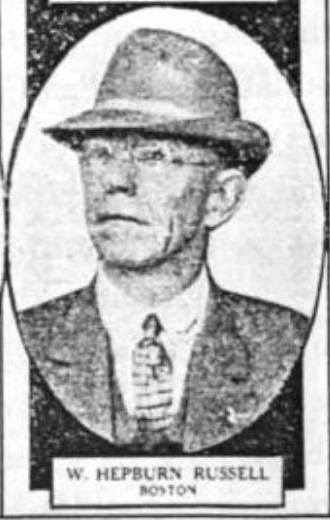 Baseball executive William Hepburn Russell